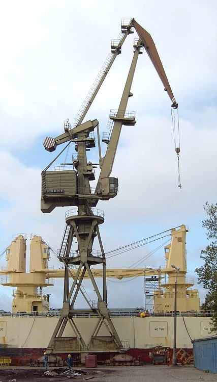 Crane of Remontowa Shiprepair Yard in Gdansk, Poland.